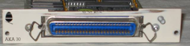 Acorn AKA30 SCSI Interface (back).This was, I think, Acorn's first SCSI podule for the Archimedes. This example came from an A680 . It is a SCSI-1 card with an external Centronics port which requires a terminator.